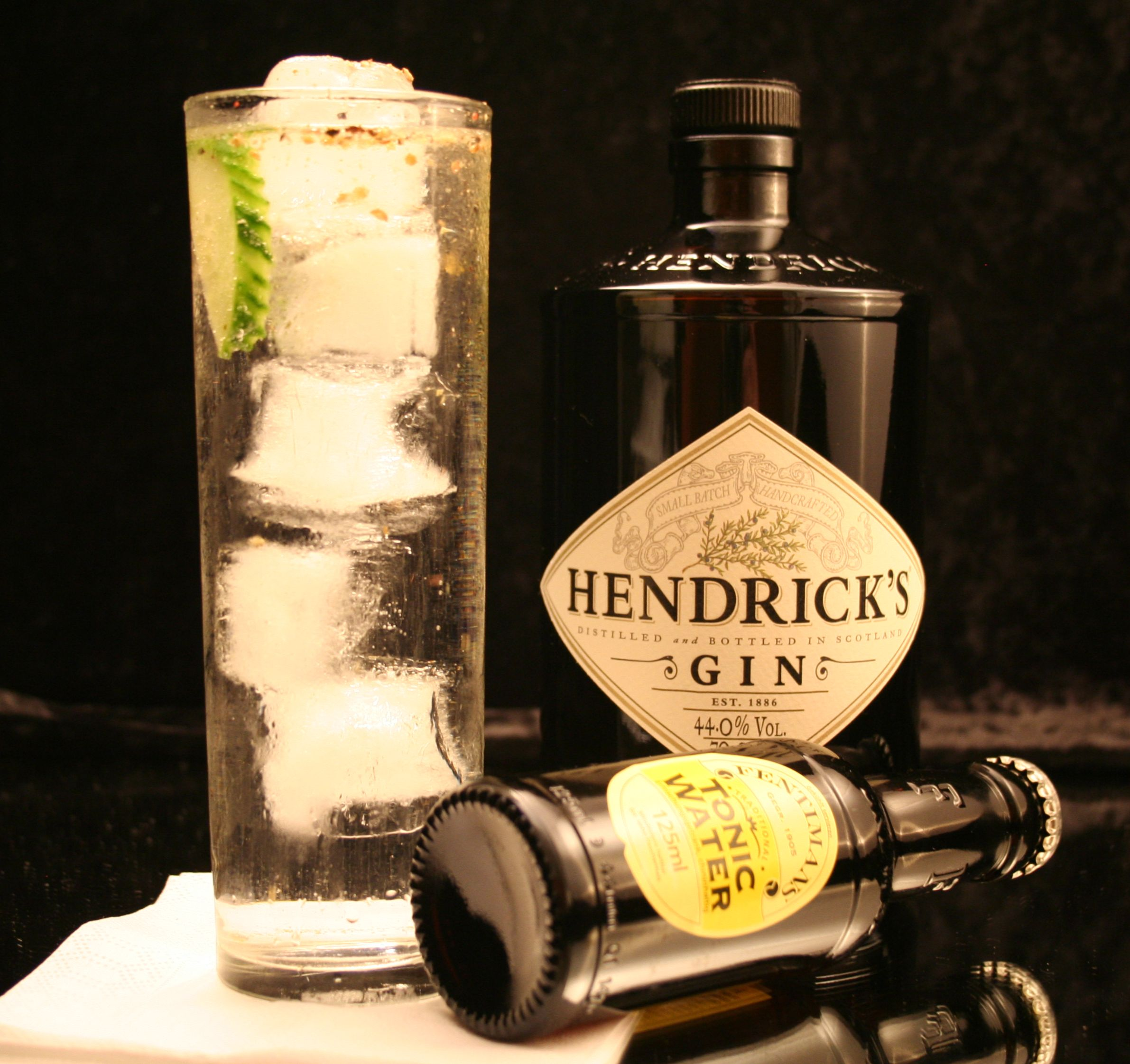 Gin and Tonic with Hendrick's Gin and Fentimans Tonic Water